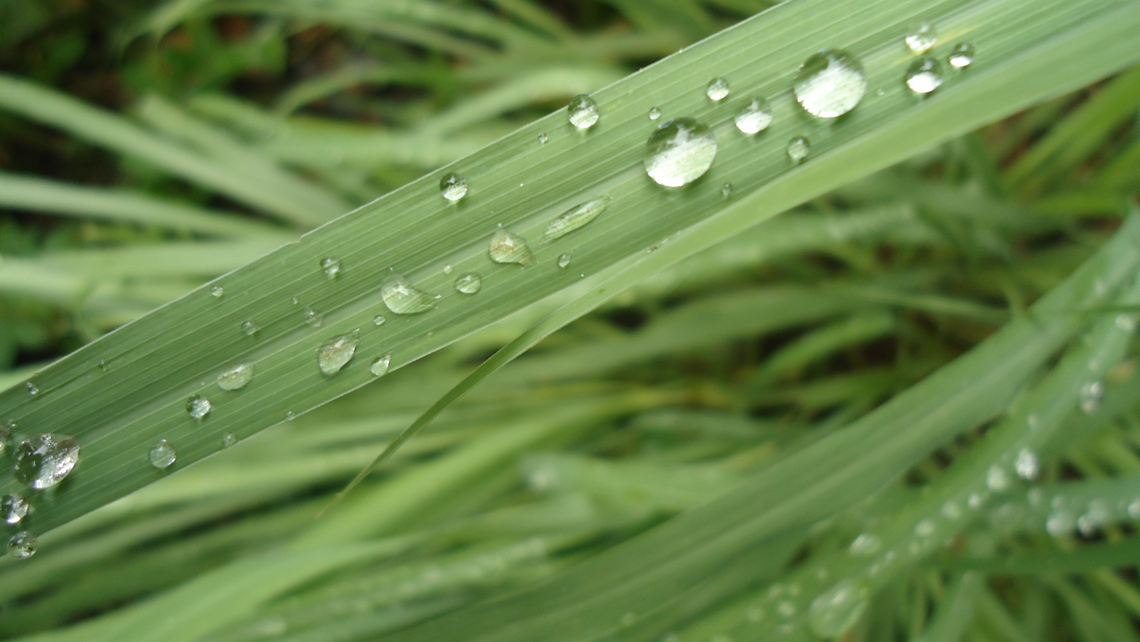 Cymbopogon citratus from the Philippines. Locally known as tanglad, it is a traditional part of Philippine Cuisine.